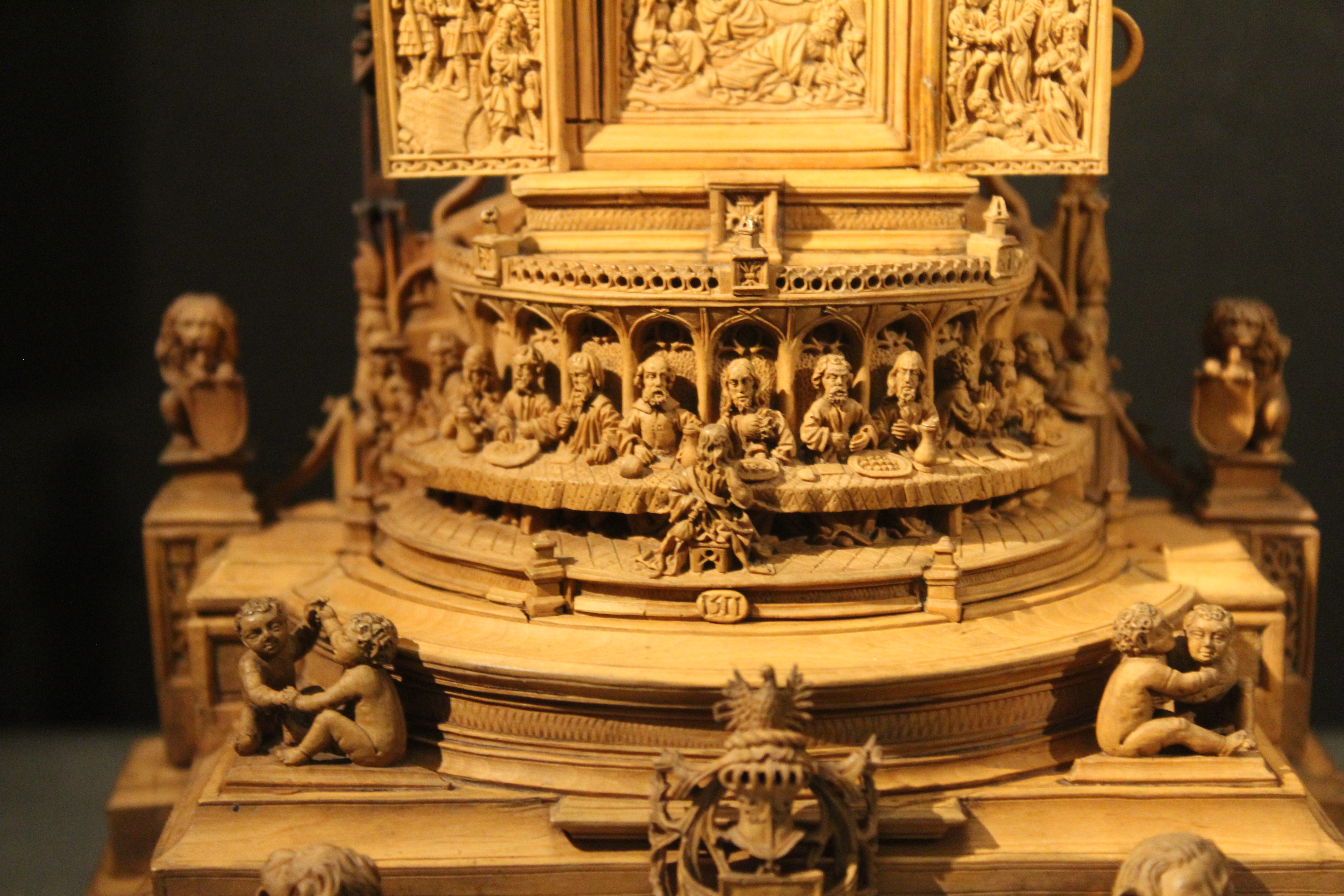 Portable altar, Boxwood, circa 1511, with thanks to British Museum for allowing photography